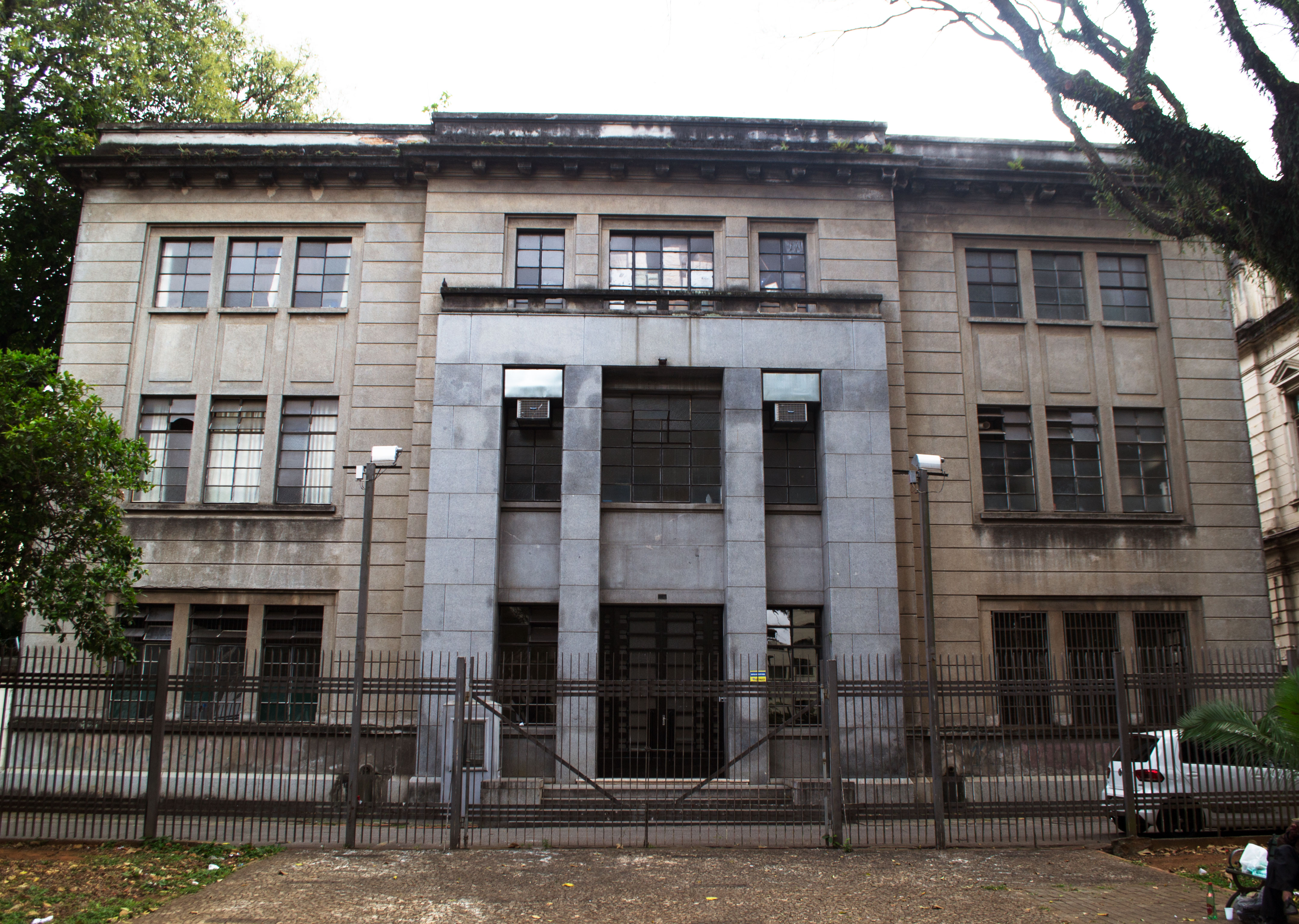 Atual ETESP, antiga Escola Politécnica, em São Paulo (SP), Brasil